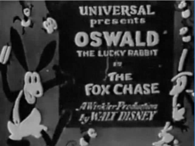 This is the title card of The Fox Chase, a 1928 cartoon featuring Oswald the Lucky Rabbit